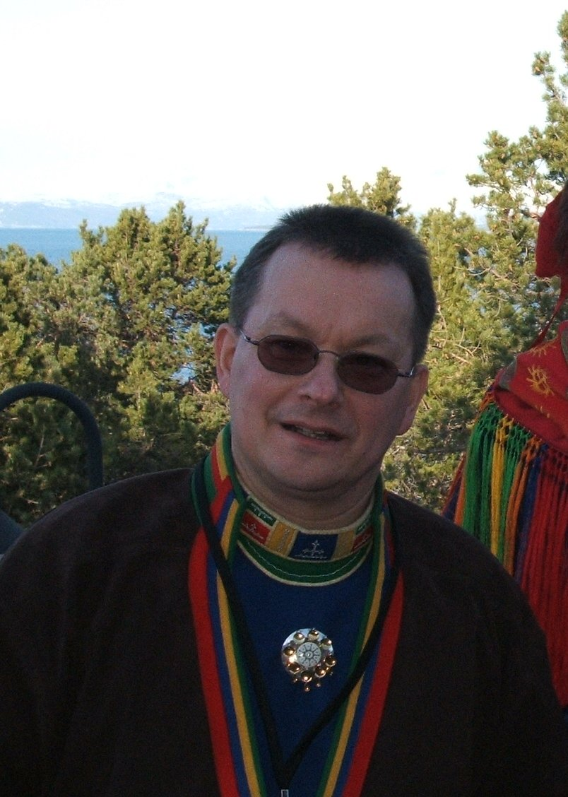 Sven-Roald Nystø, second president of the Norwegian Sami Parliament (Samediggi) Author: Trond Trosterud